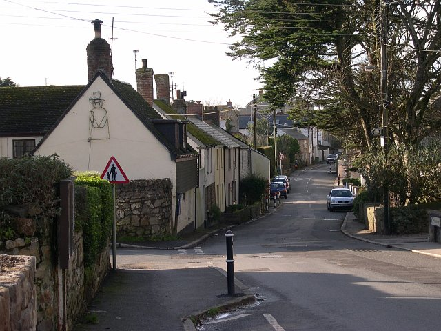 Goldsithney Village. The village of Goldsithney has grown a lot in the latter half of the 20th century. This photo shows part of the 19th century heart of the village which is surrounded by more modern housing developments.